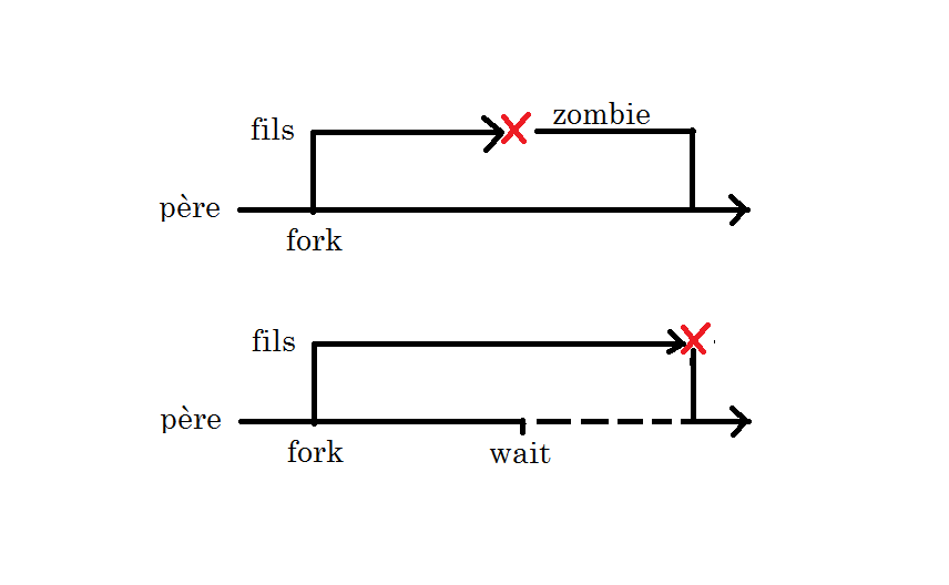 Explanatory diagram of a zombie process